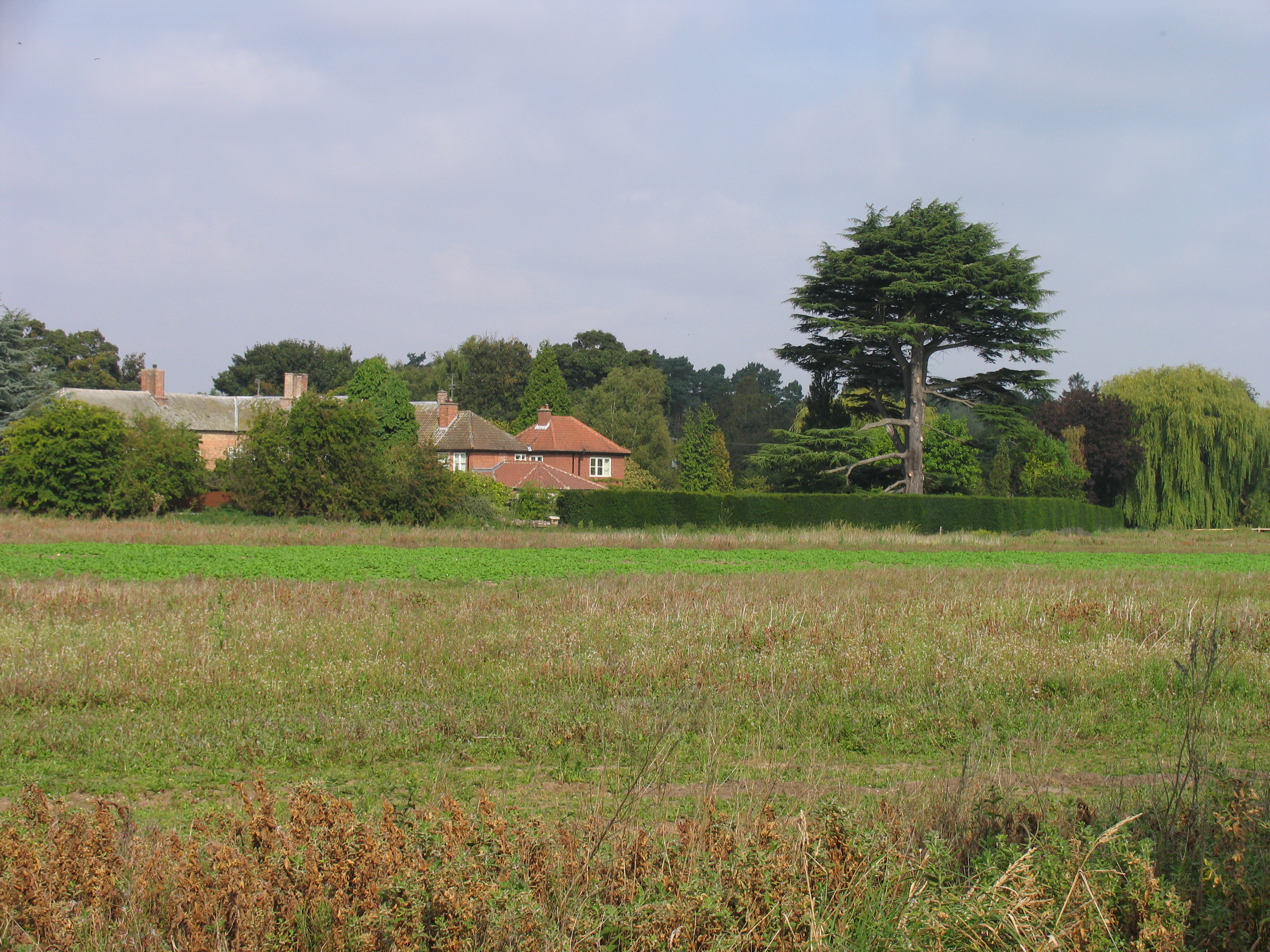 Kilnwick, East Riding of Yorkshire, England. The remaining out-buildings of Kilnwick House, redeveloped for residential use.